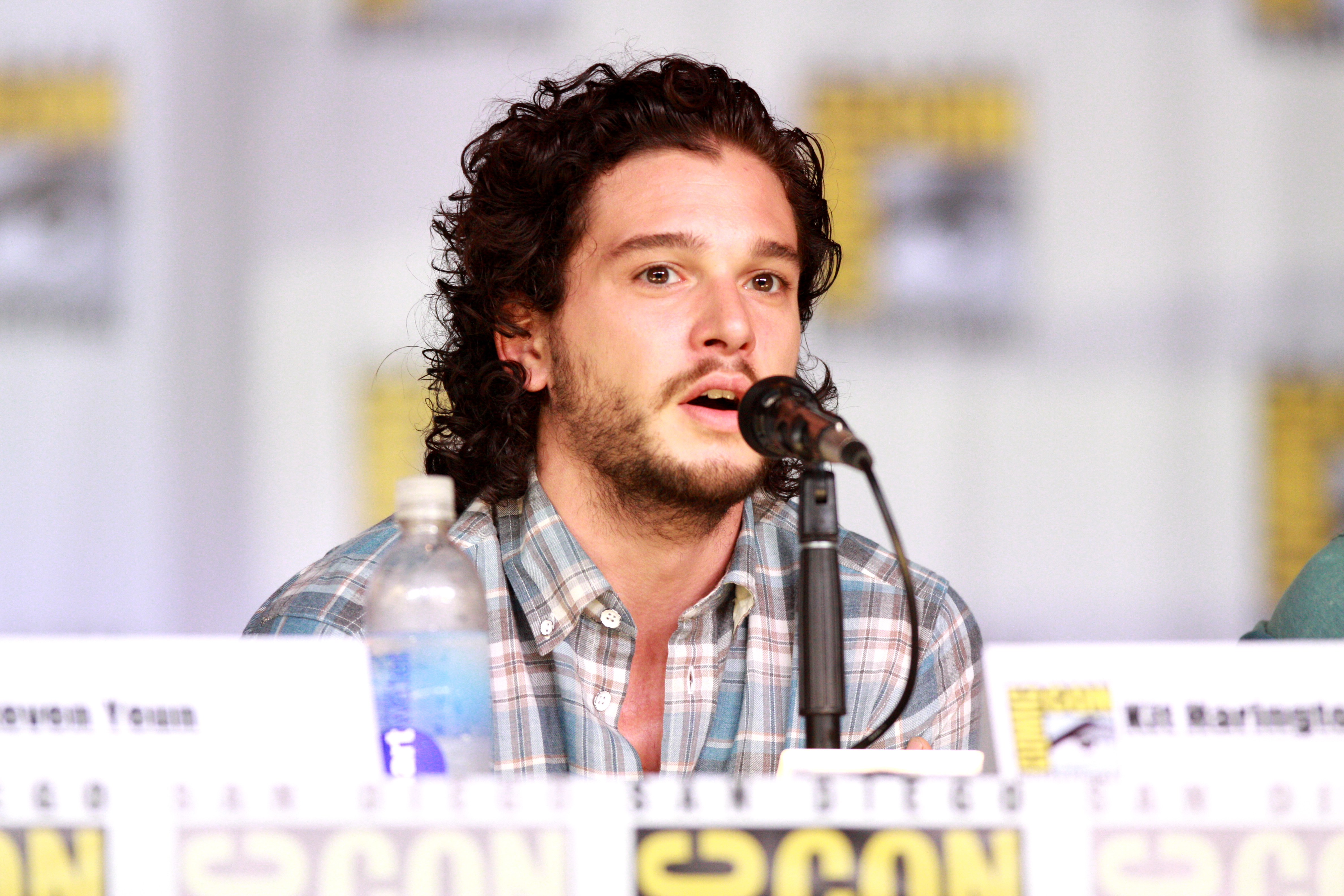 Kit Harrington speaking at the 2013 San Diego Comic Con International, for Entertainment Weekly's "Brave New Warriors" panel, at the San Diego Convention Center in San Diego, California.